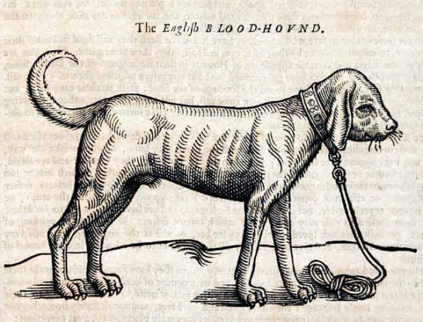 This woodcut is an illustration from the book The history of four-footed beasts and serpents by Edward Topsell, printed by E. Cotes for G. Sawbridge, T. Williams and T. Johnson in London in 1658.